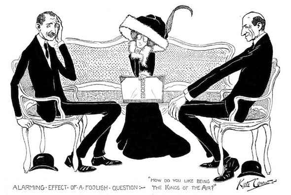 Artwork by Kate Carew (June 27, 1869 - February 11, 1961). This artwork is in the public domain because it was first published in the United States before 1923.